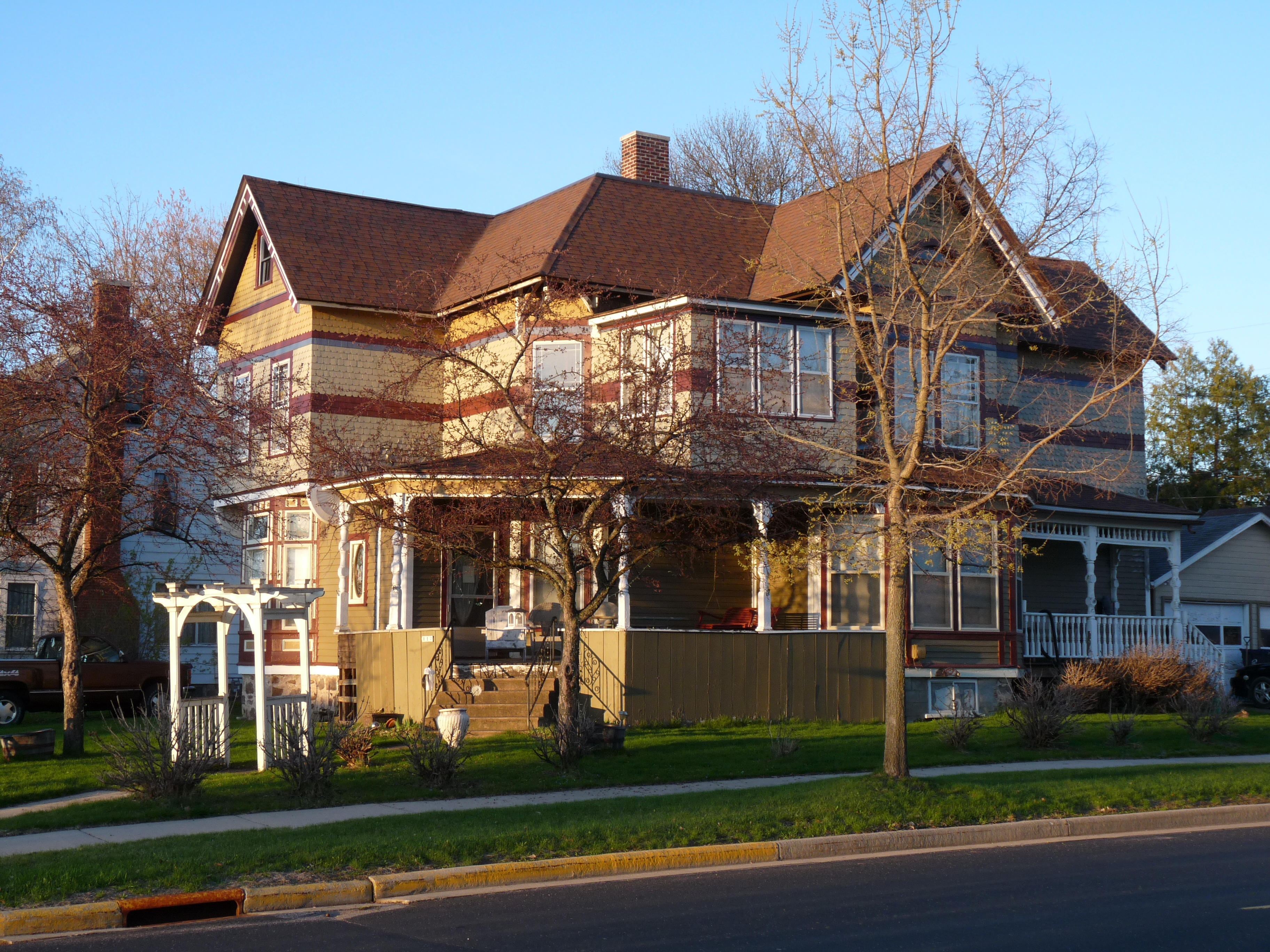 The William Noll, Jr. house in Marshfield Wisconsin is Queen Anne-styled, and built in 1891. William was involved in the family hardware store a few blocks away.